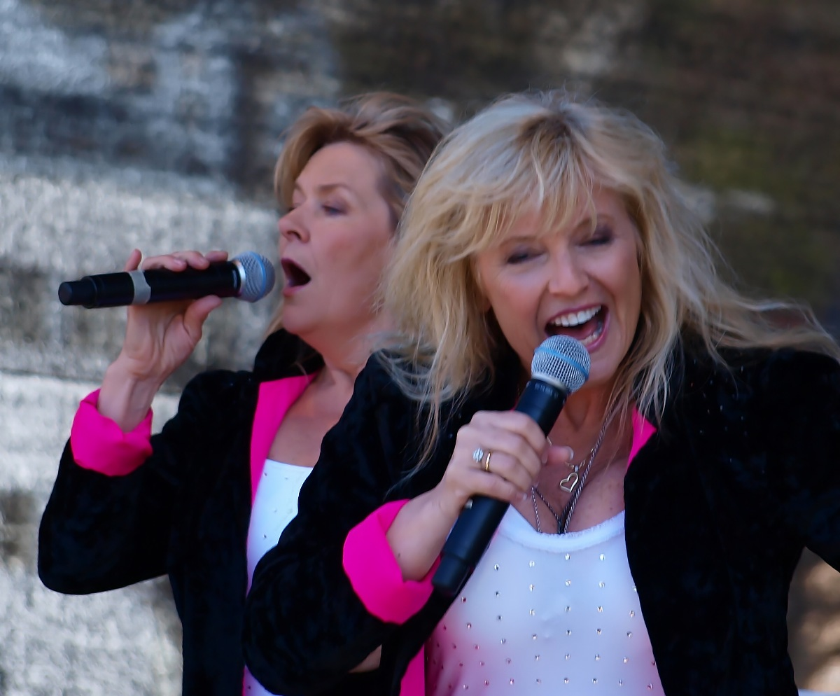 Bobbysocks consisting of Hanne Krogh and Elisabeth Andreassen at the outdoor scene "Festplassen" in Bergen.